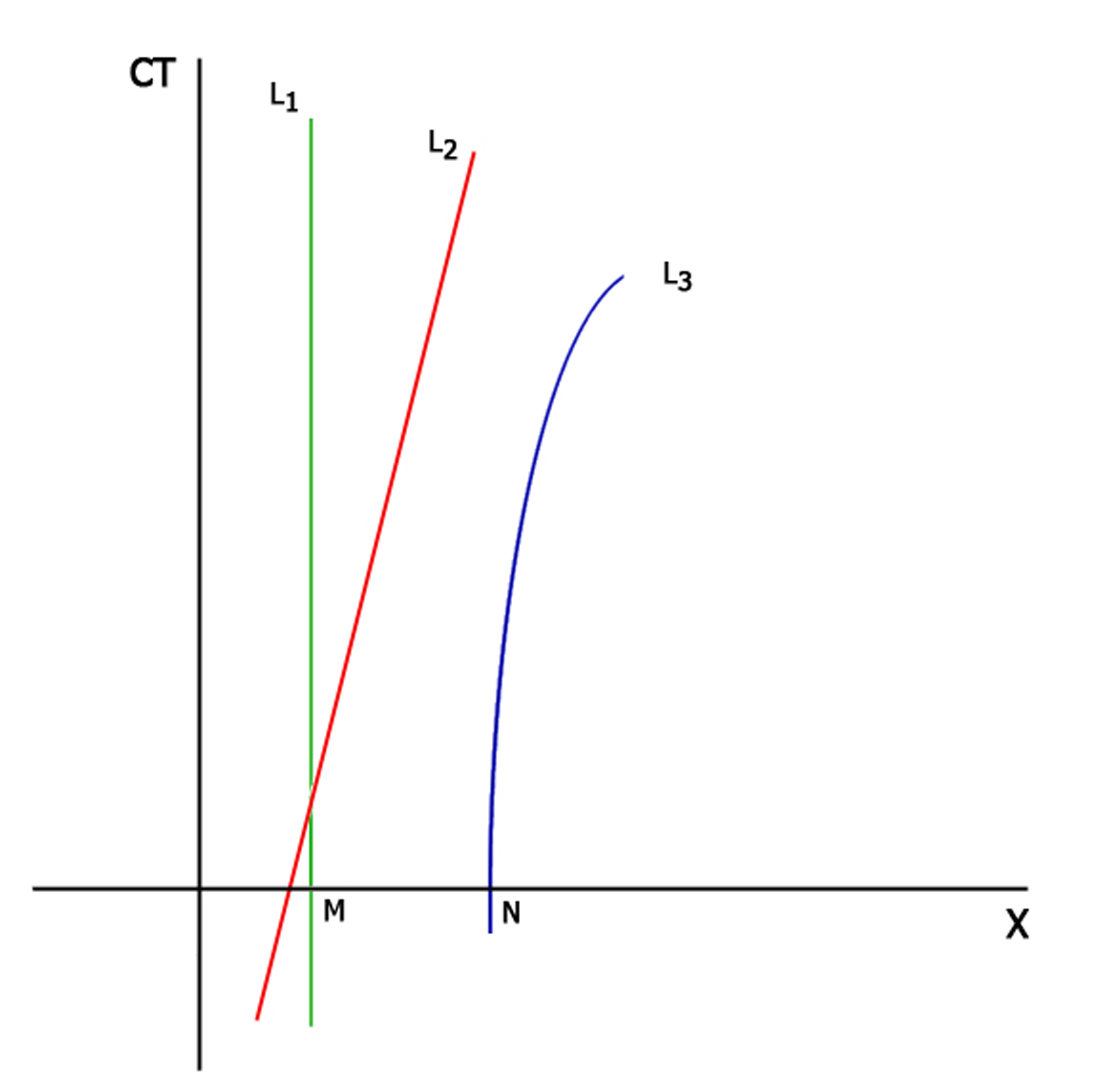 space-time world lines